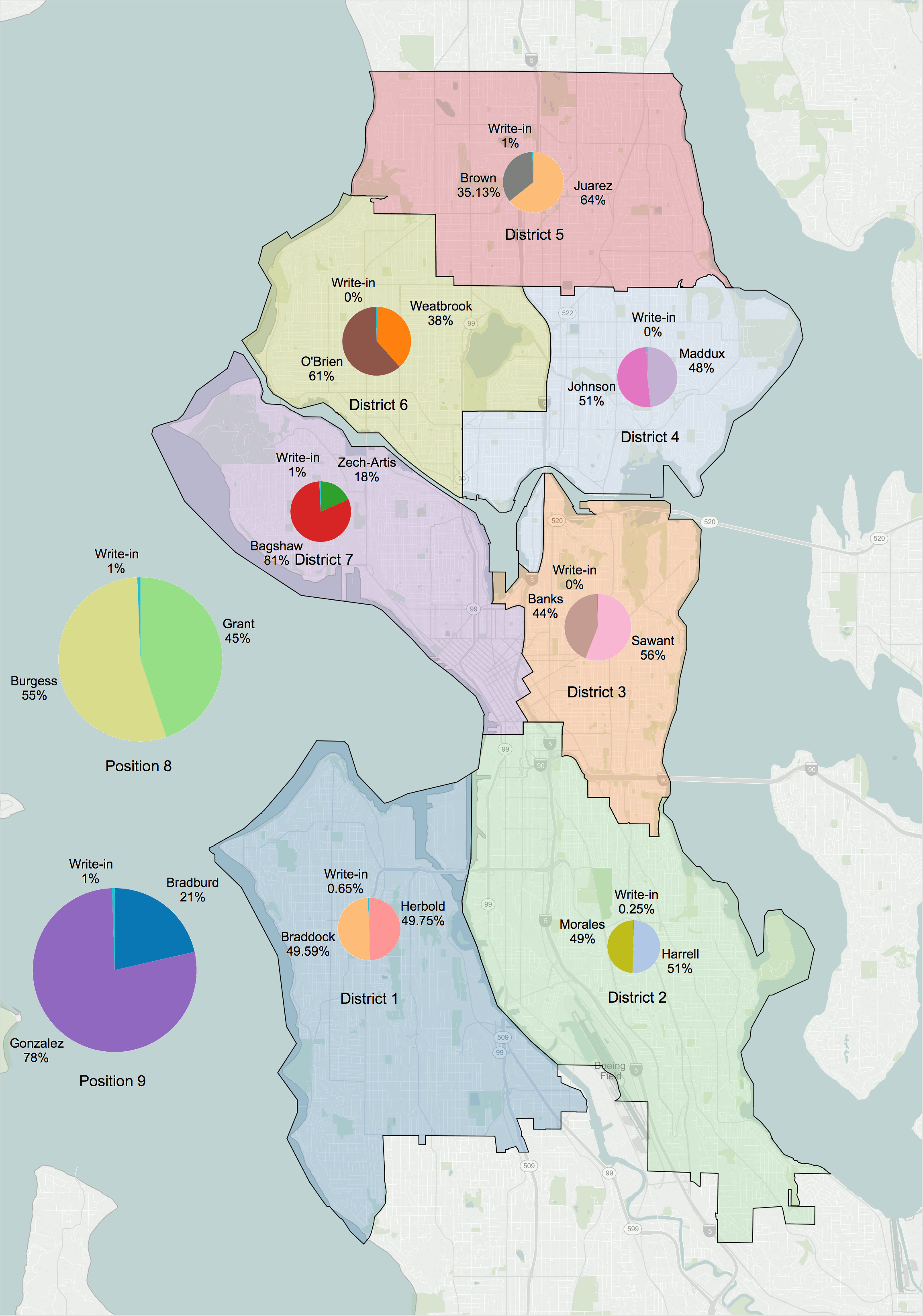 Results of the 2015 Seattle City Council election by District or Position, with top two candidates, or incumbent, labeled. Size of circle shows total votes cast in each race. Created with Tableau. From November 3 General Election results published by King County Elections, certified November 24, 2015.